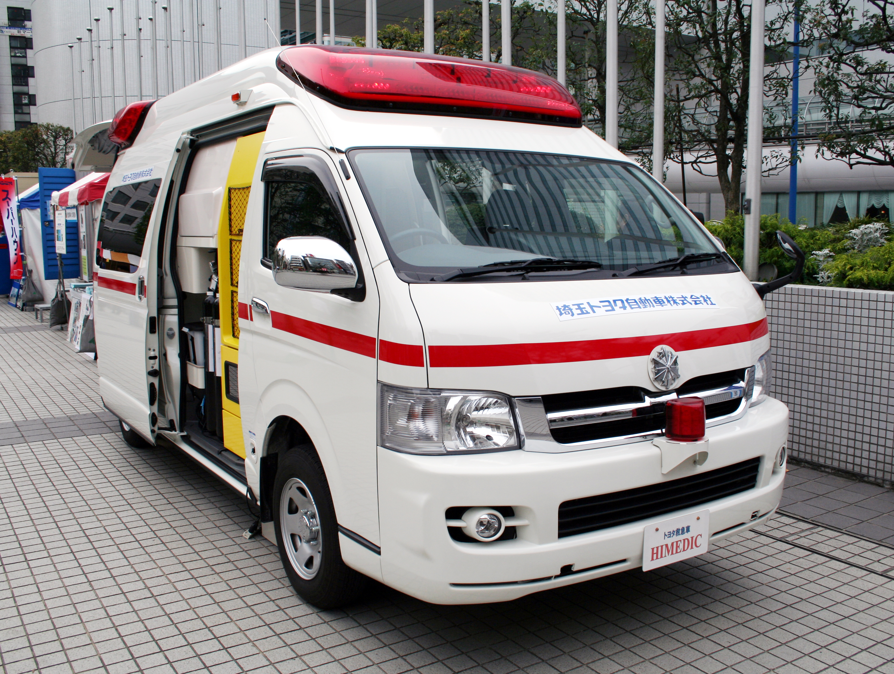 Japanese TOYOTA HIMEDIC 3rd ambulance.